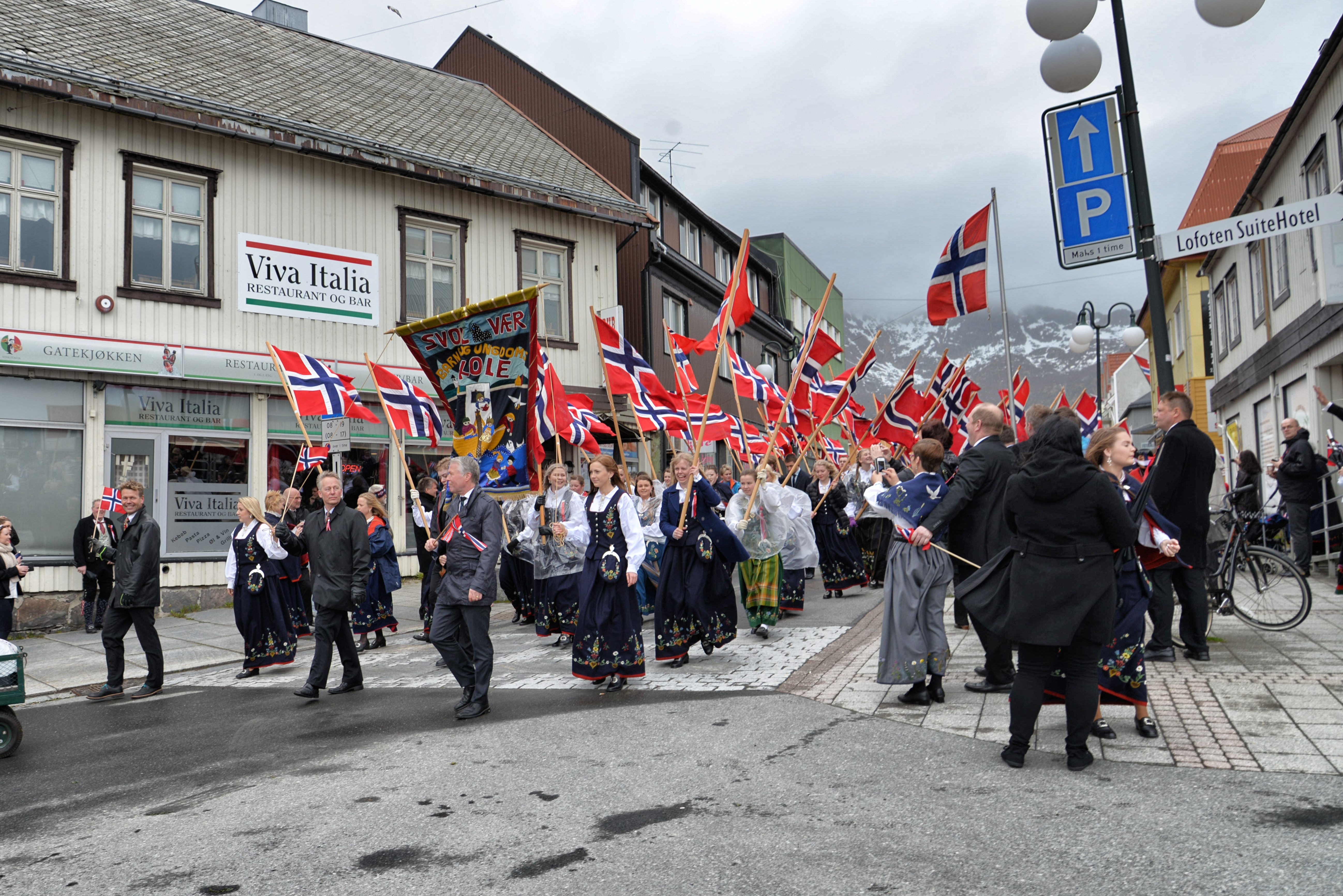 Norwegian National Day in Svolvaer